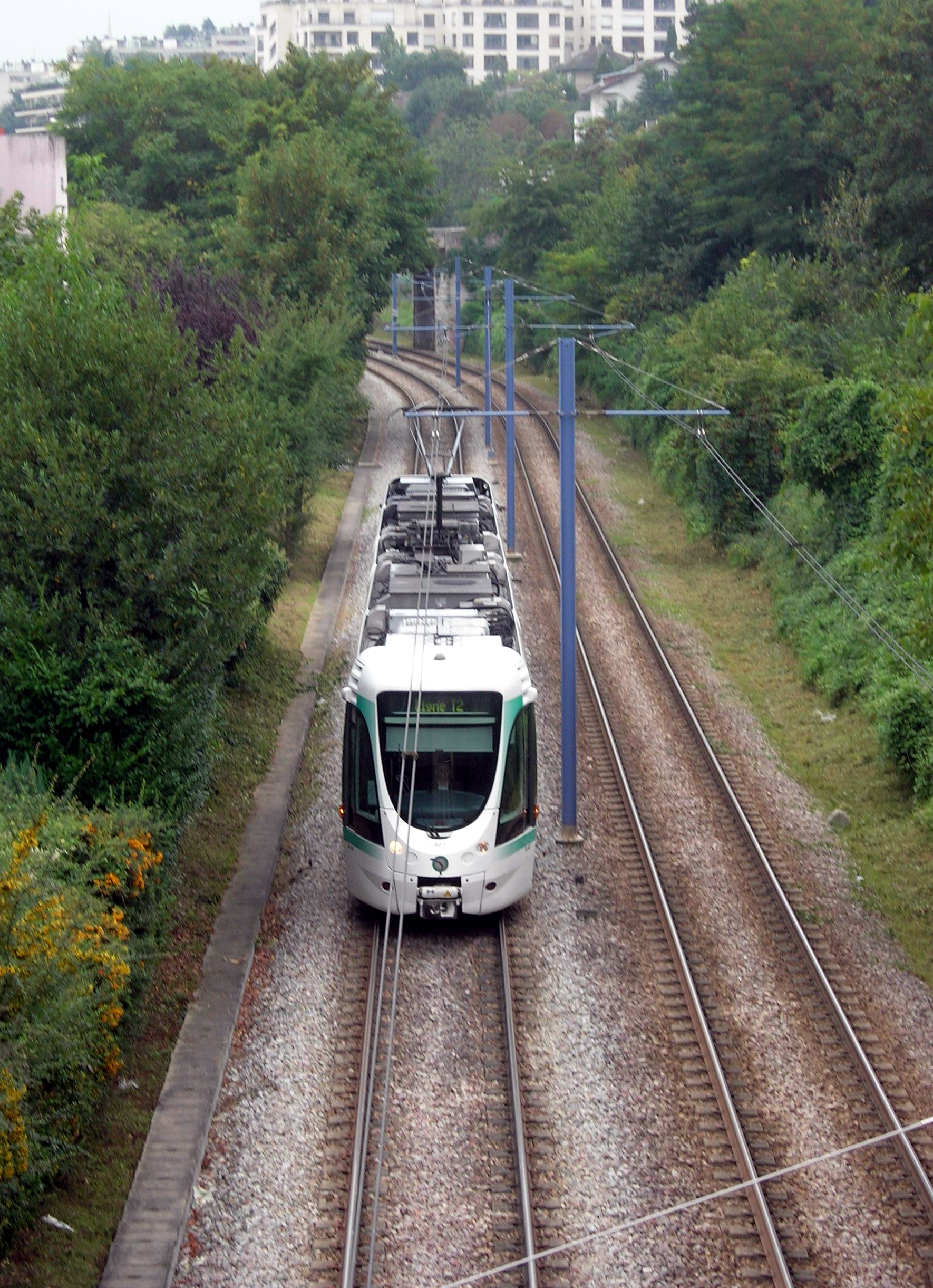 Description =Tramway T2 Source =Photo taken by Remi Jouan Date =Septembre 2006 Author =Remi Jouan